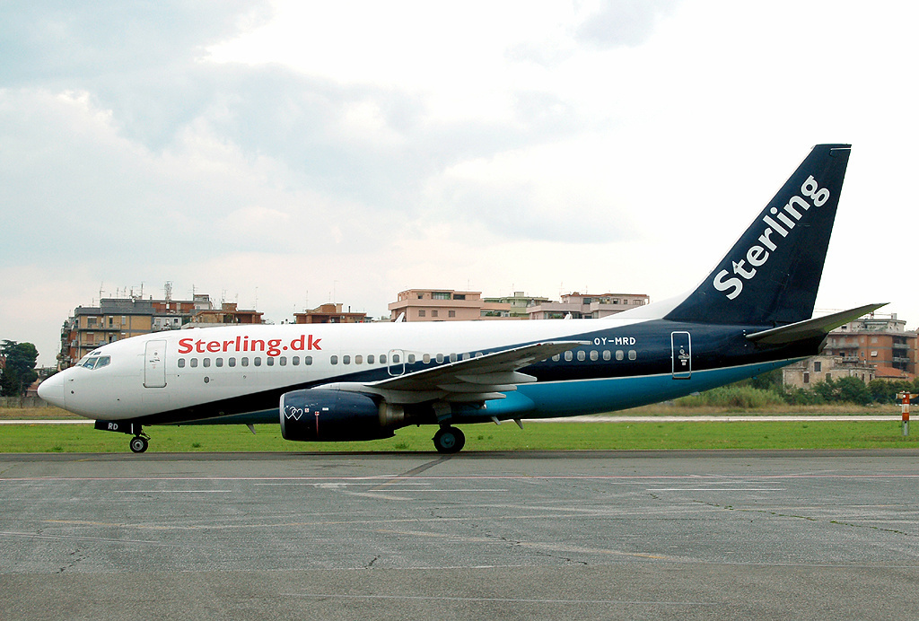 Sterling Boeing 737-7L9 OY-MRD at Rome Ciampino Airport